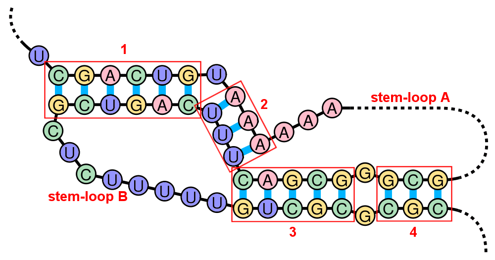 Adapted from wikimedia commons File:Pseudoknot.svg